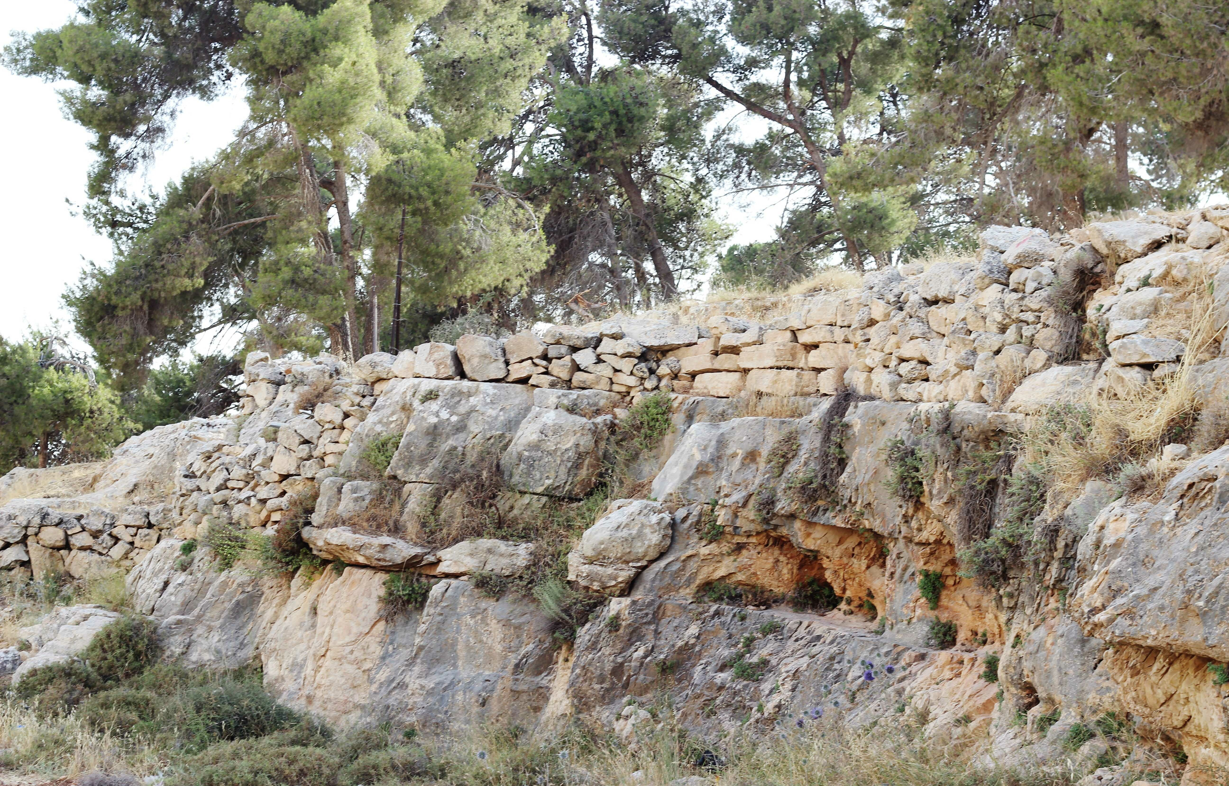 Archaeological site Tel Nasbh near Al-Bireh in the West Bank.